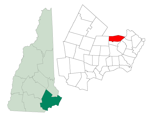 Map of a municipality in Rockingham County, New Hampshire